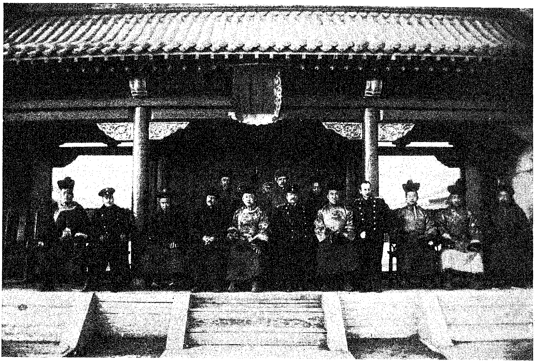 Image from With the Russians in Mongolia